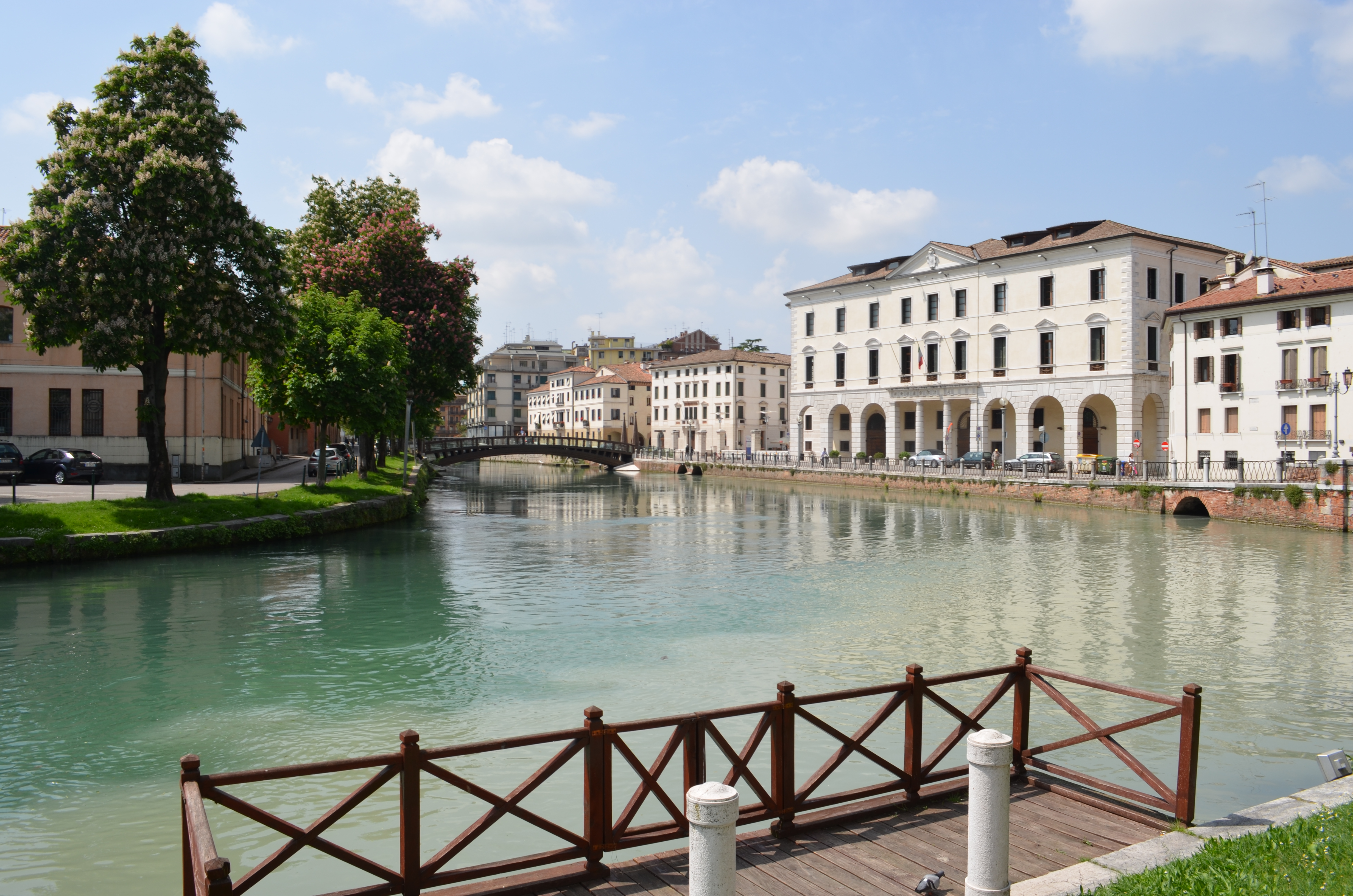 River Sile in Treviso, Italy